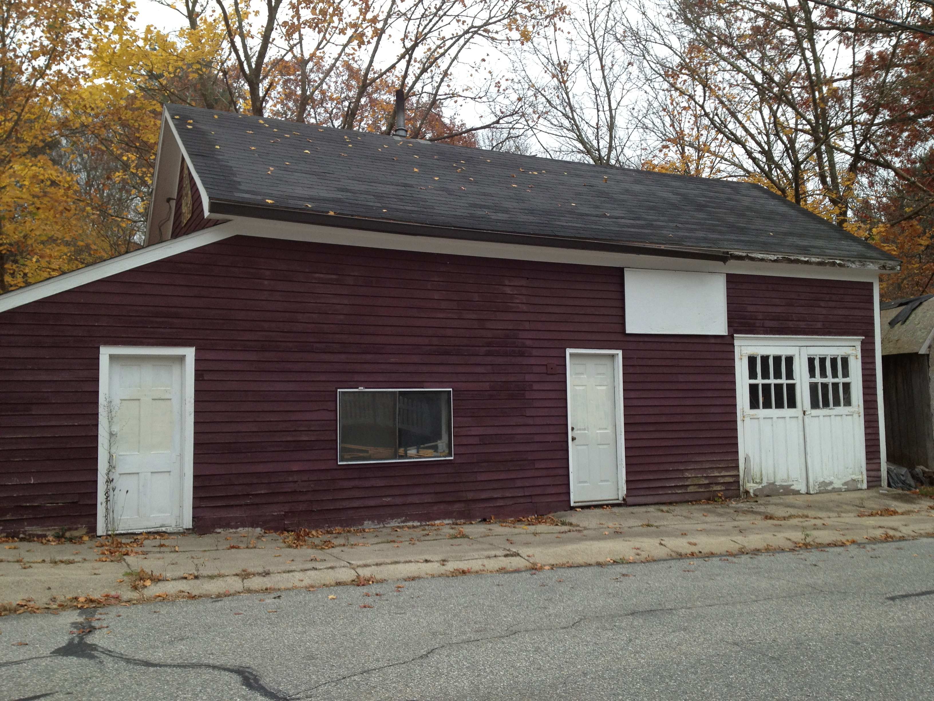 Remnants of a US historic site, Waukentuck Mill builidngs, Uxbridge, Massachusetts